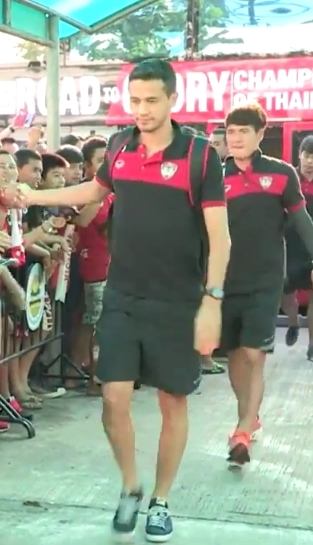 Edivaldo Hermoza before game Thai Premier League Ostospa Saraburi - Muangthong United